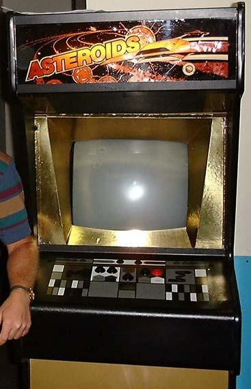 Arcade game "Asteroids" upright cabinet.